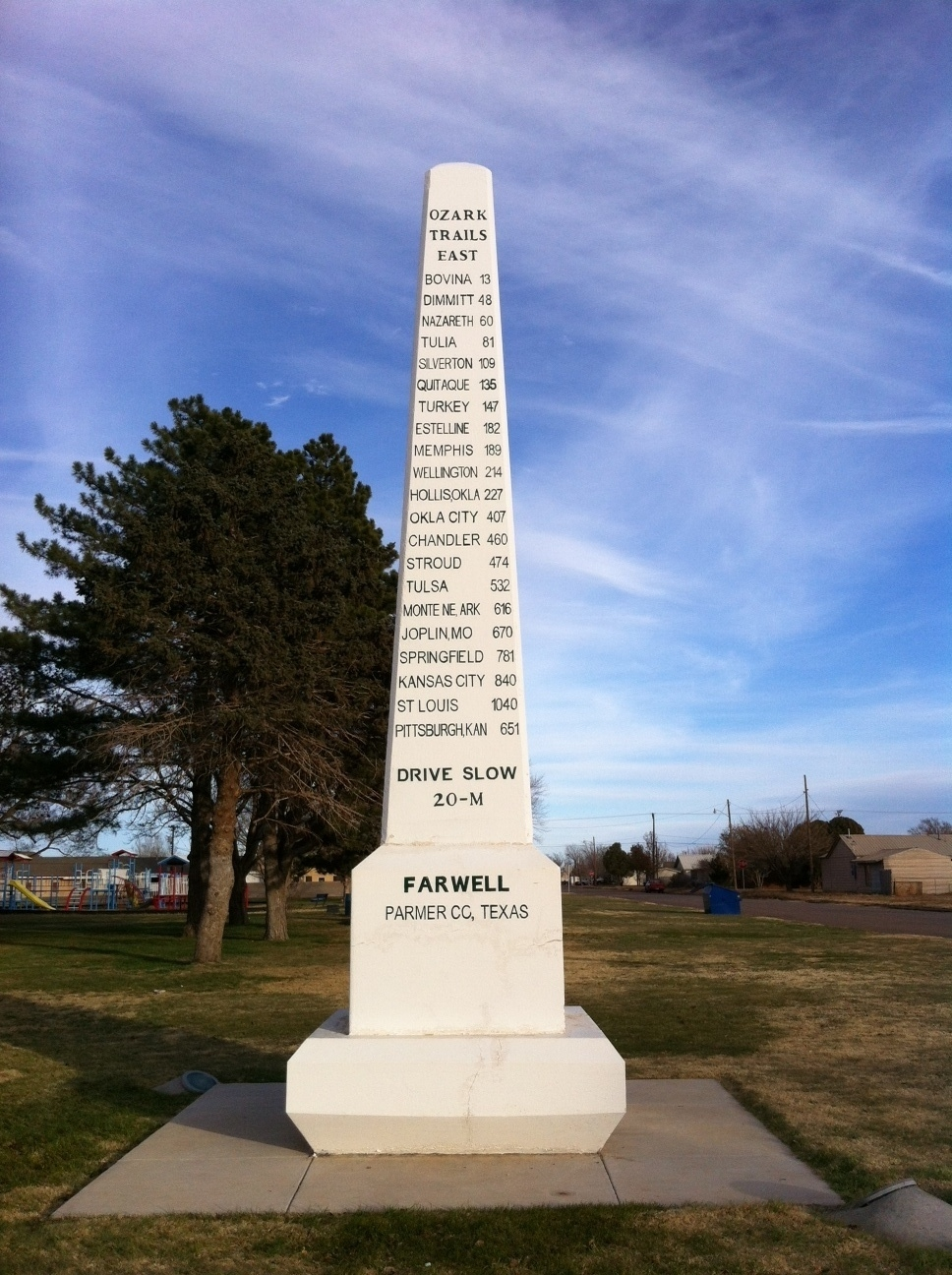 This obelisk is commemorates the Ozark Trail that went through the city of Farwell, Texas